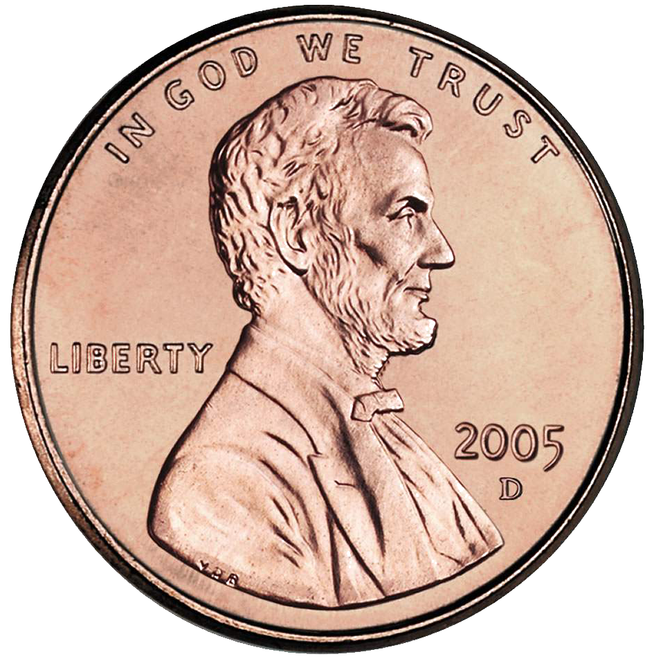 Removed background, cropped, and converted to PNG with Macromedia Fireworks. This image depicts a unit of currency issued by the United States of America. If Fraudulent use of this image is punishable under applicable counterfeiting laws. As listed by the United States Secret Service at money illustrations, the Counterfeit Detection Act of 1992, Public Law 102-550, in Section 411 of Title 31 of the Code of Federal Regulations (31 CFR 411), permits color illustrations of U.S. currency provided:1. The illustration is of a size less than three-fourths or more than one and one-half, in linear dimension, of each part of the item illustrated;2. The illustration is one-sided; and3. All negatives, plates, positives, digitized storage medium, graphic files, magnetic medium, optical storage devices, and any other thing used in the making of the illustration that contain an image of the illustration or any part thereof are destroyed and/or deleted or erased after their final use. Certain coins contain copyrights licensed to the U.S. Mint and owned by third parties or assigned to and owned by the U.S. Mint [1]. For the United States Mint circulating coin design use policy, see [2]; for the policy on the 50 State Quarters, see [3]. Also: COM:ART #Photograph of an old coin found on the Internet